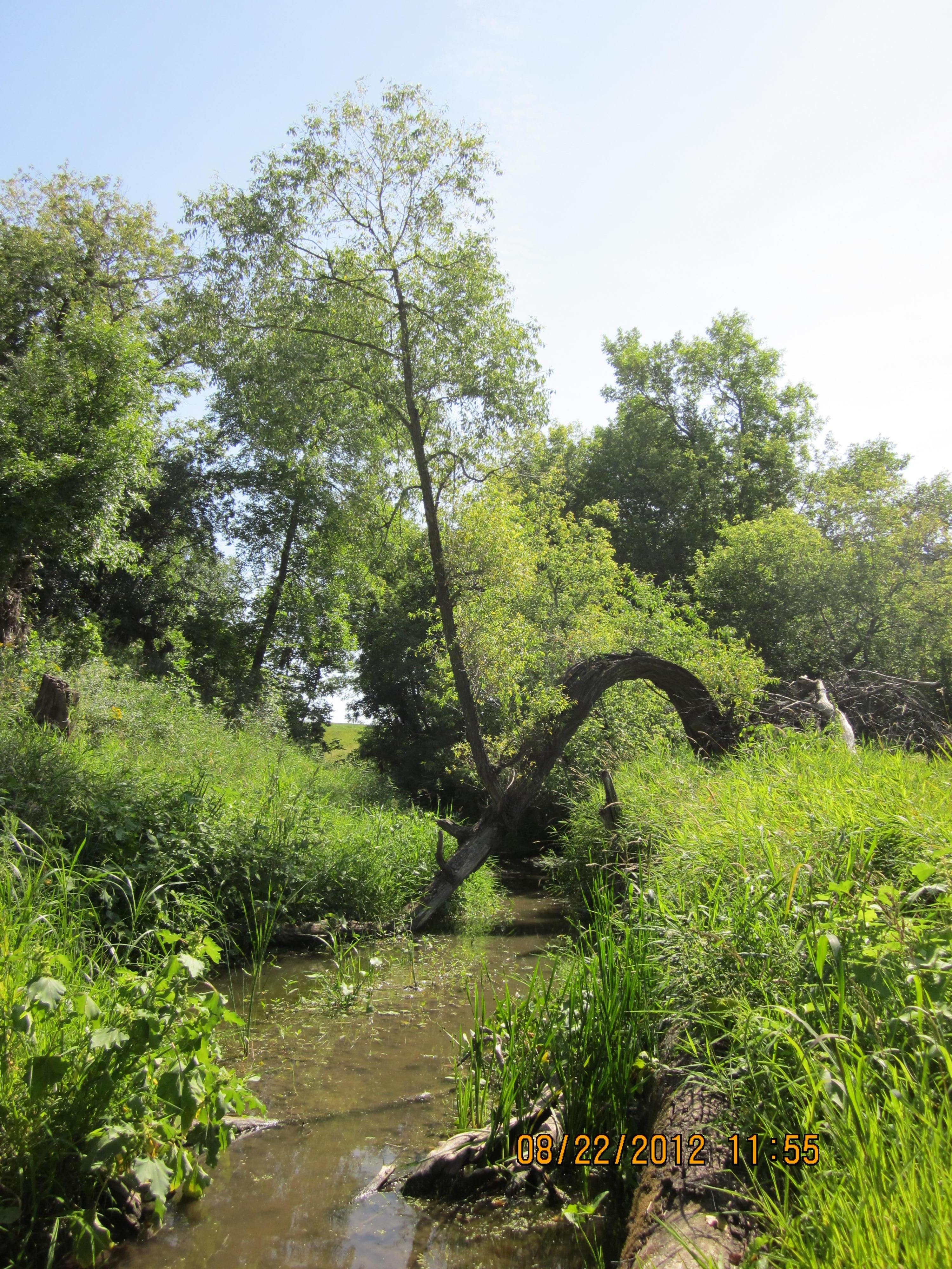 Title: Tree growing over Stream Description: A tree had fallen into the Marsh River near Shelly, Minnesota, and a new shoot took off right over the river. Location: Shelly, MN, USA Date Taken: 08/22/2012 Photographer: Ernest McCoy , USGS